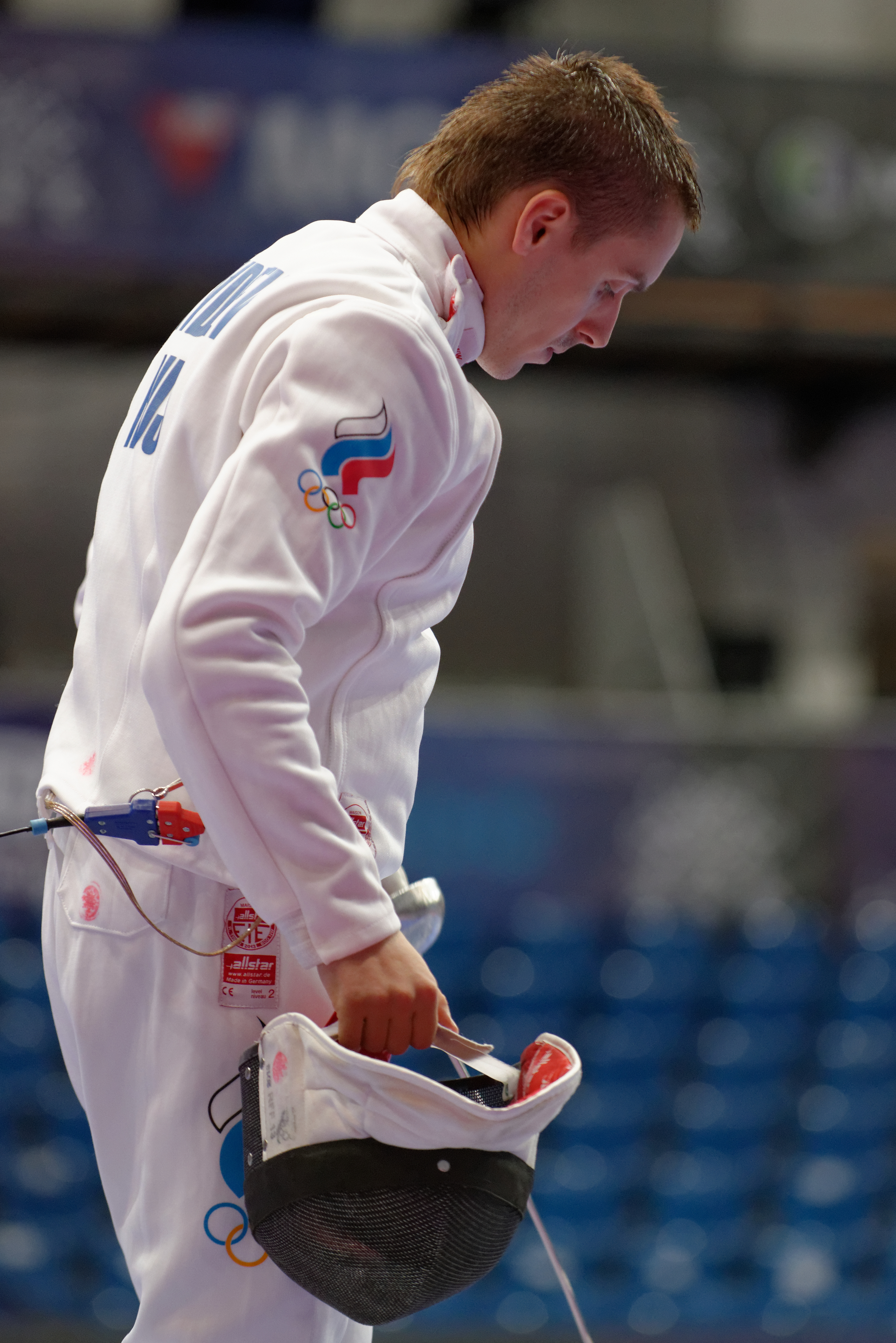 Russia's Anton Avdeev during his bout against Patrick Jørgensen of Denmark in the table of 64 of the men's épée event in the 2013 World Fencing Championships 2013 at Syma Hall in Budapest, 8 August 2013.